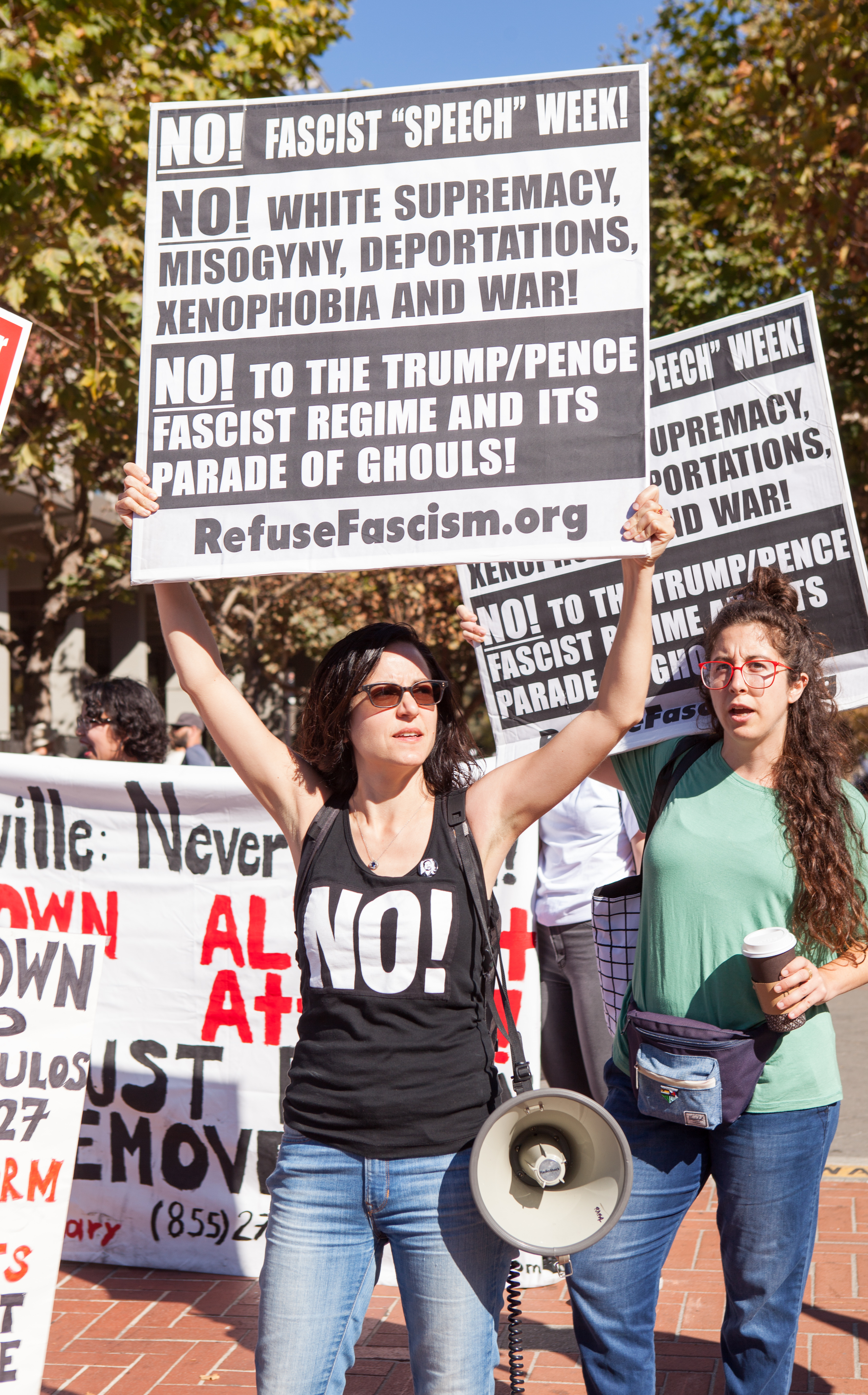 Refuse Fascism activist Sunsara Taylor holds a sign reading "No! Fascist 'Speech' Week" on the sidewalk outside Sproul Plaza, UC Berkeley.